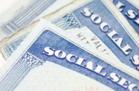 Image of three social security cards from the Social Security Admistration Website.